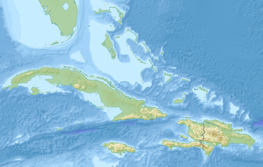 Greater Antilles relief location map. Equirectangular projection. Stretched by 106.0%